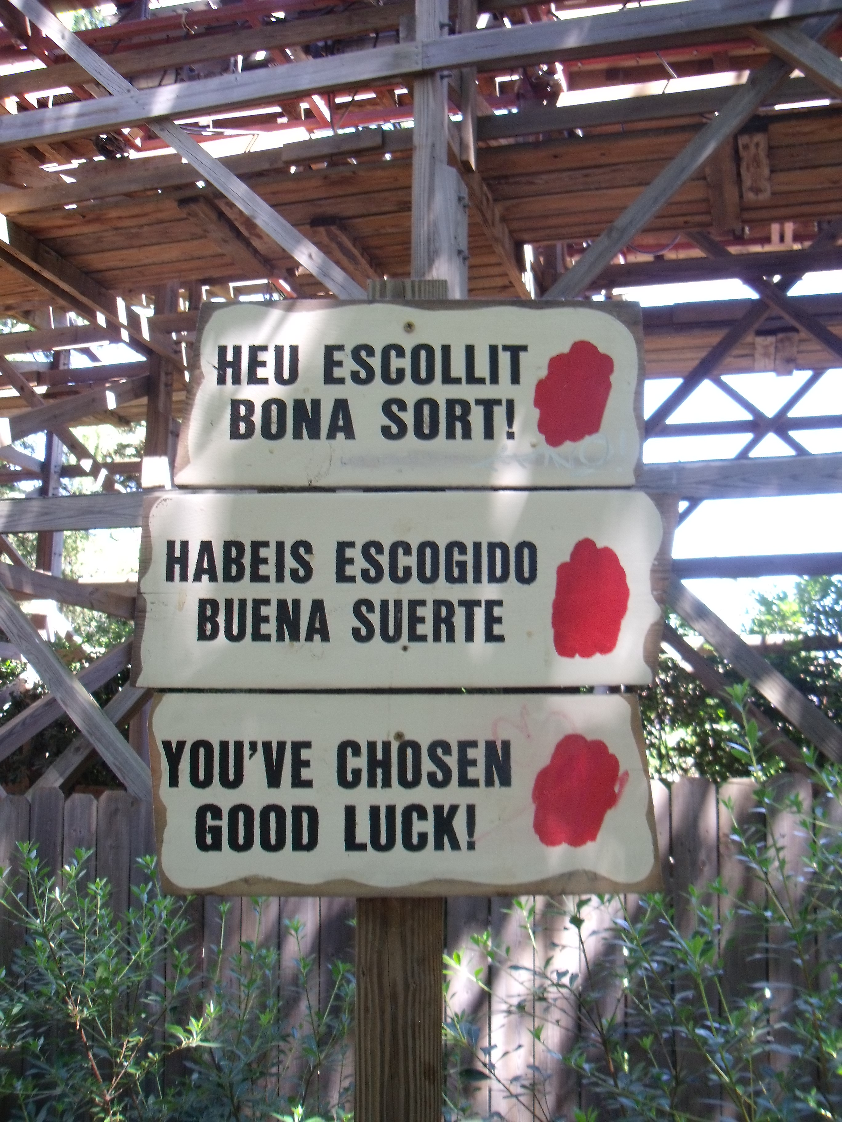 Stampida Red track